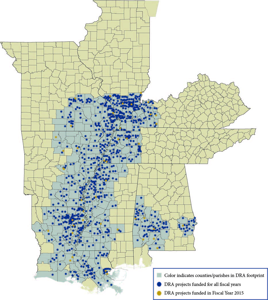 The 252 counties and parishes within the DRA footprint. DRA has invested in 934 projects represented here with yellow dots indicating projects from FY 2015.